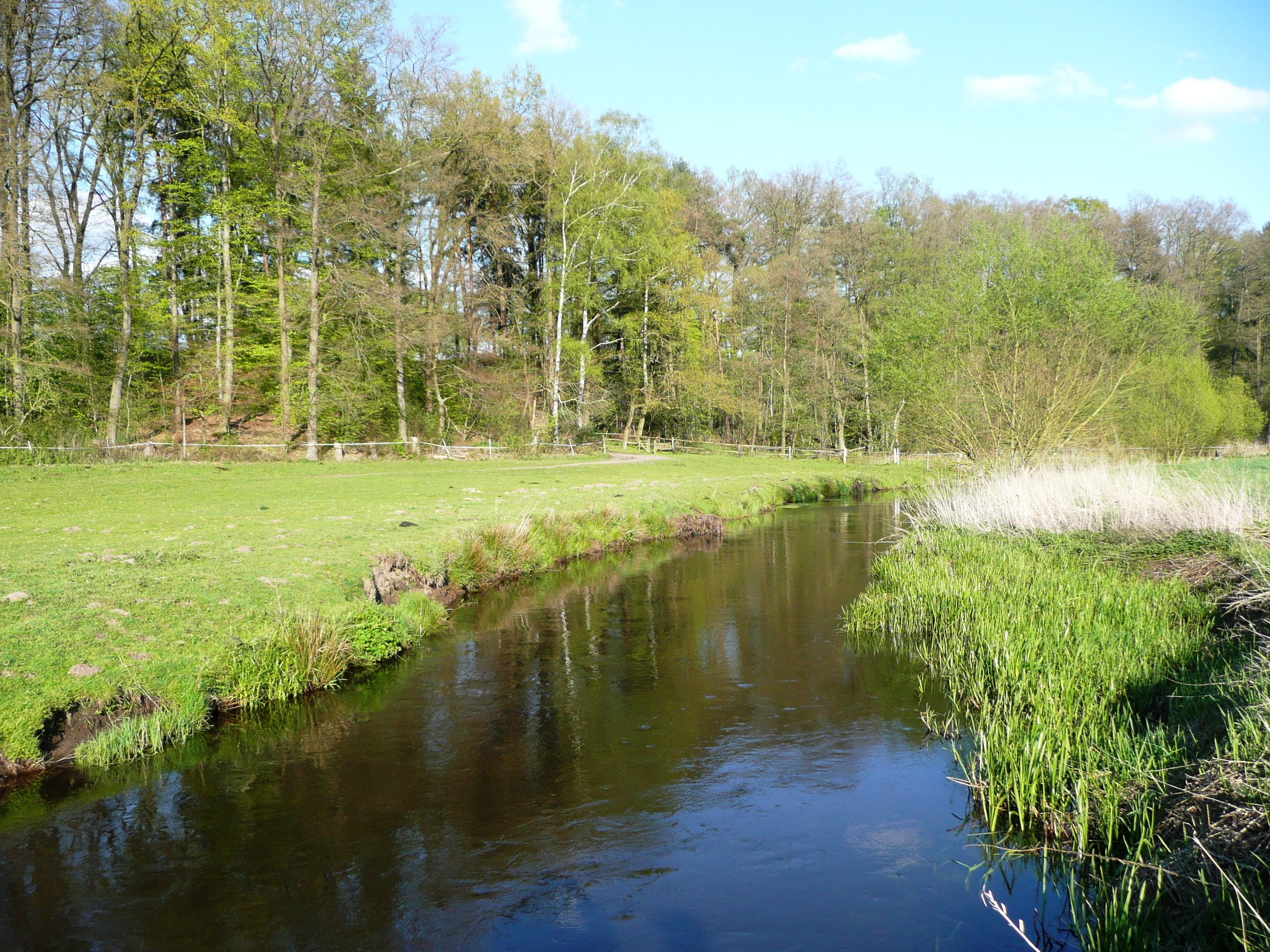 Böhme river near Elferdingen, Lüneburg Heath (Bomlitz, Lower Saxony, Germany)